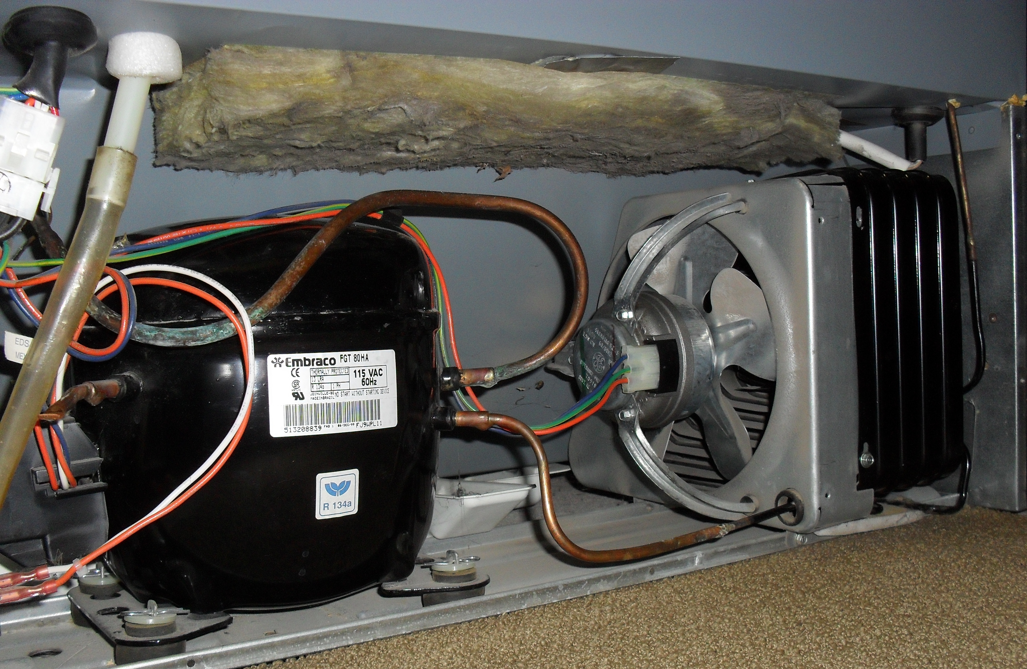 Embraco type FGT 80HA compressor made in Brazil in 1999.